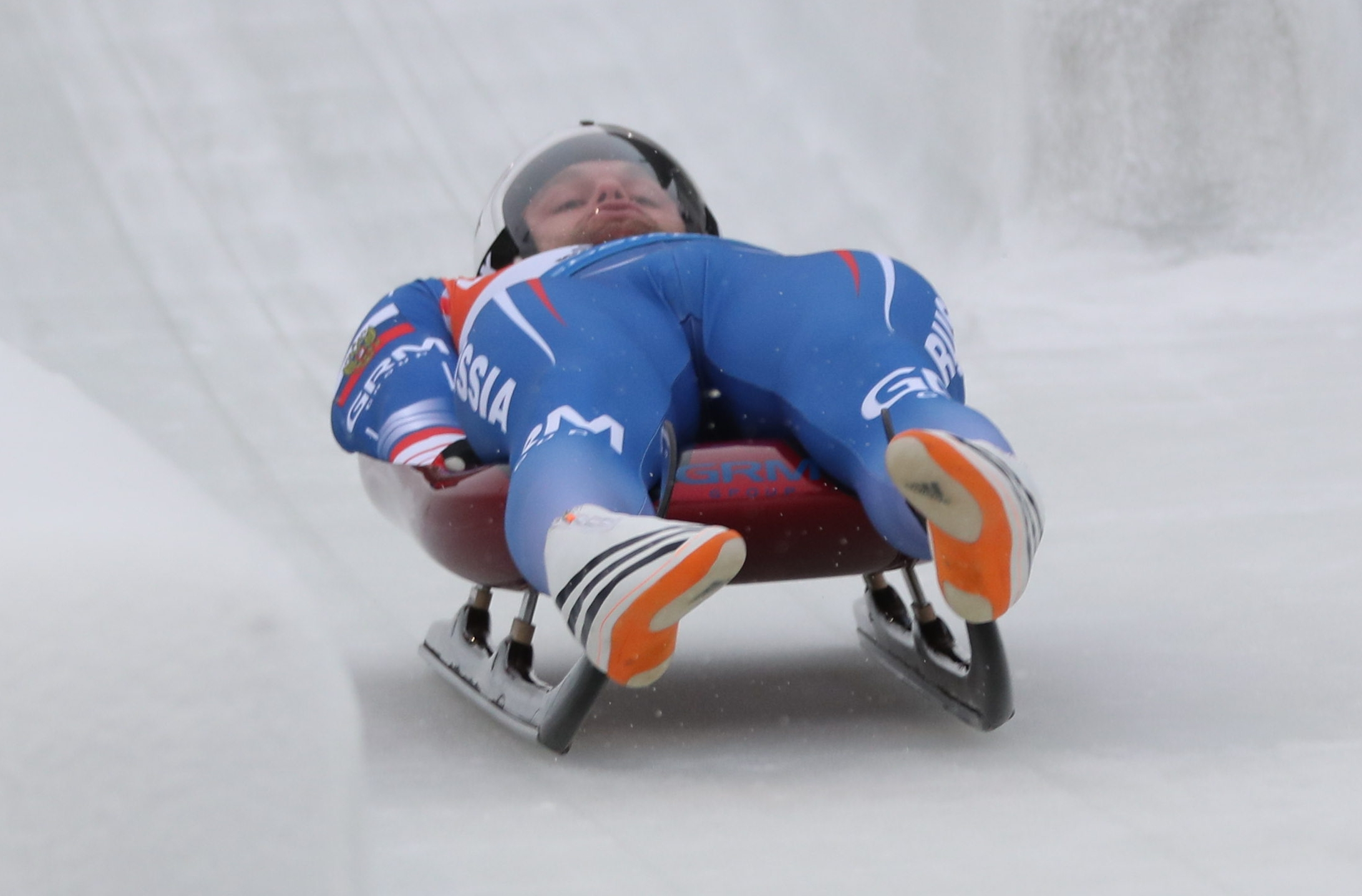 Luge World Cup Men in Winterberg